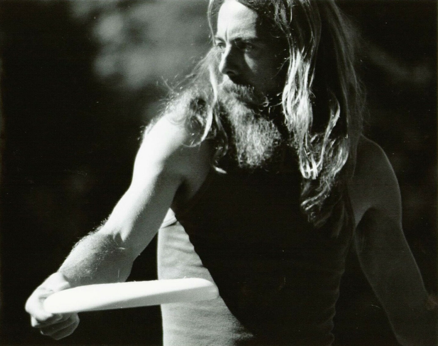 Ken Westerfield holding a Frisbee in 1977